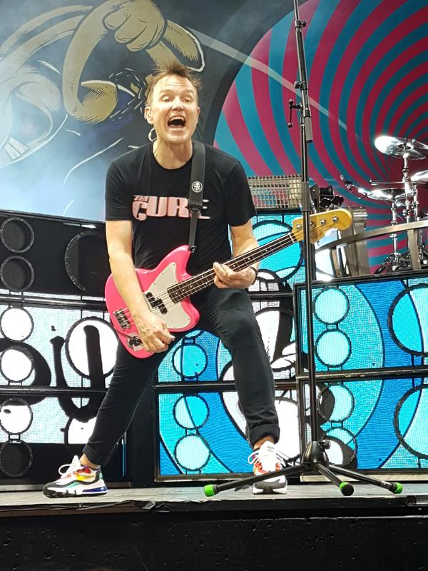 Bassist Mark Hoppus of Blink-182 interacting with fans at a concert in 2019.